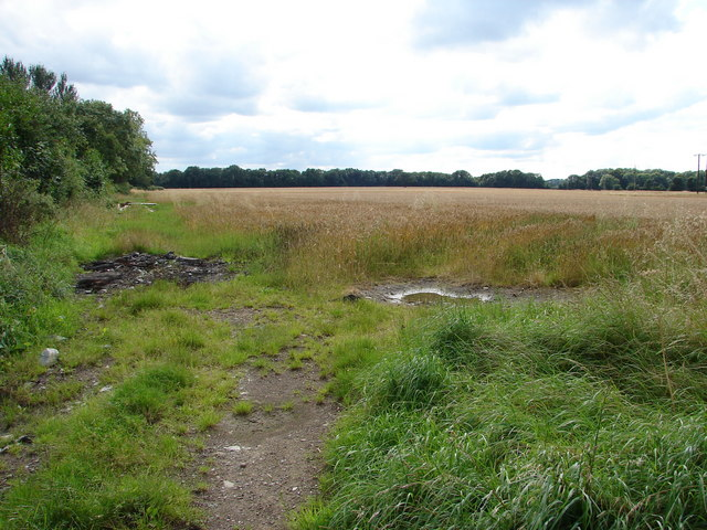 Field Near Coldblow Taken from a gate at the roadside.